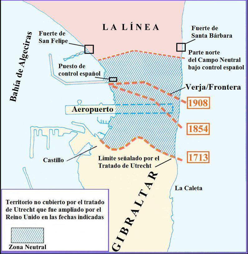 Cut of file:Xibraltarplano-es.jpg